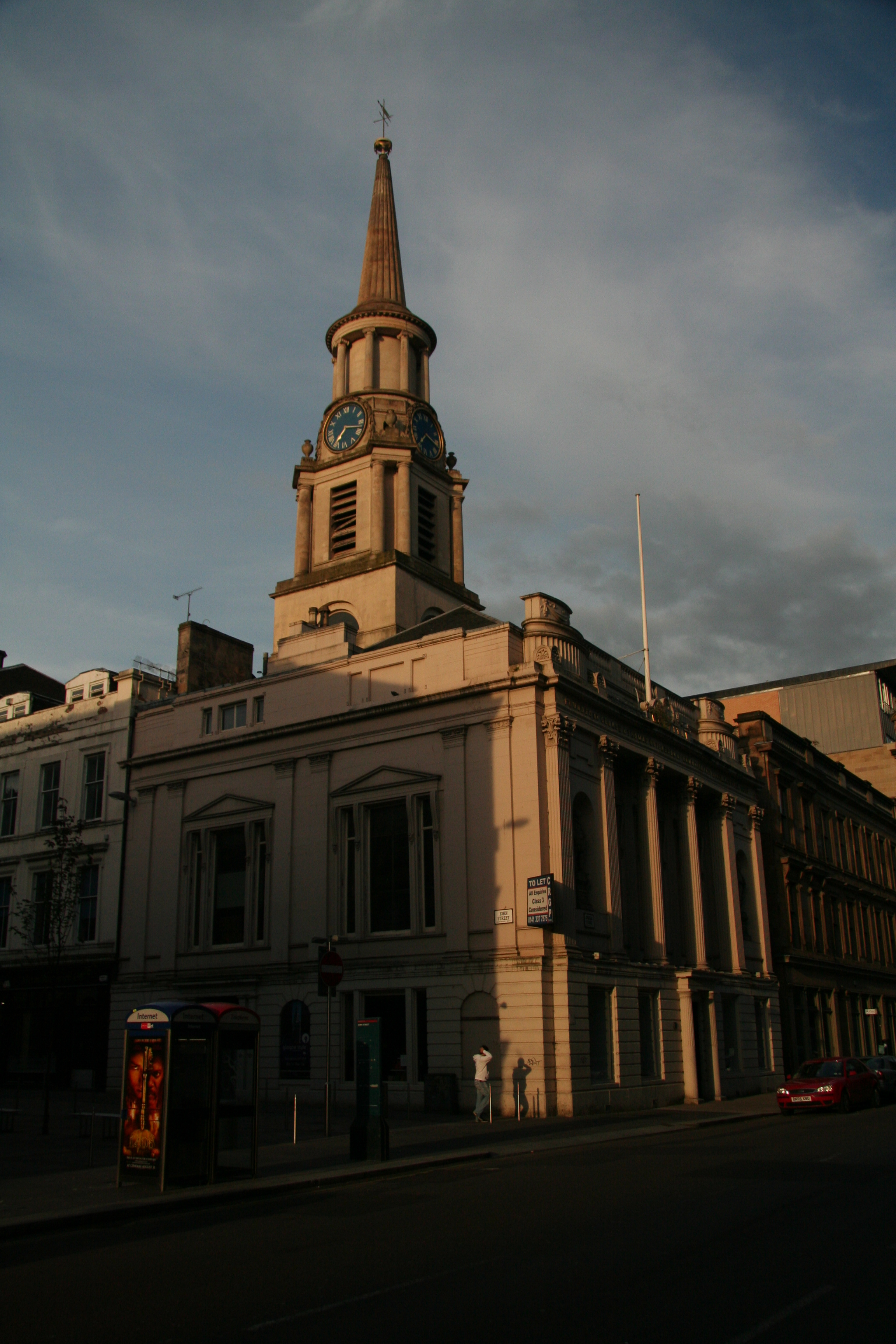 Hutcheson's Hall in Glasgow